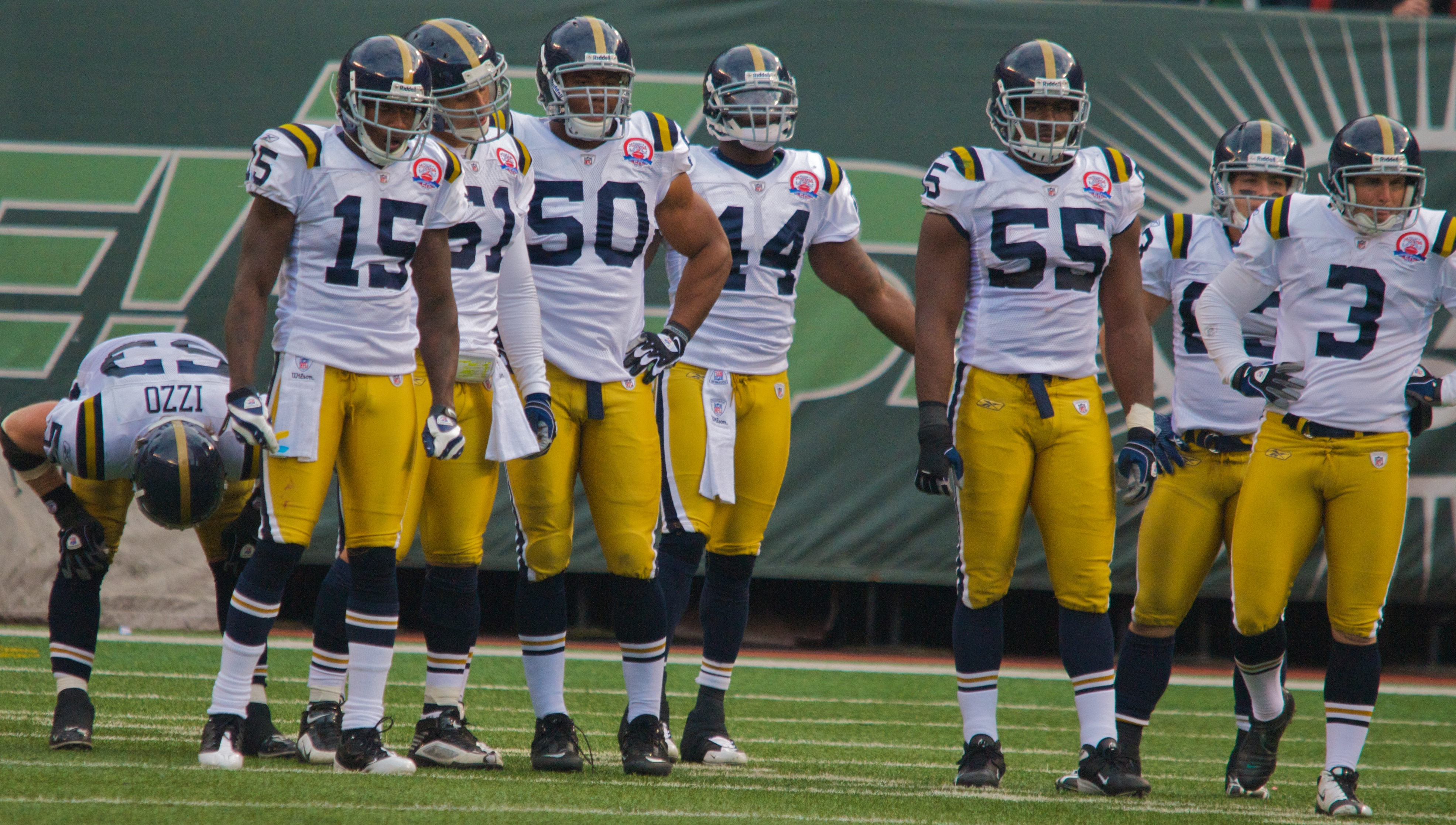 Special teams players for the New York Jets.